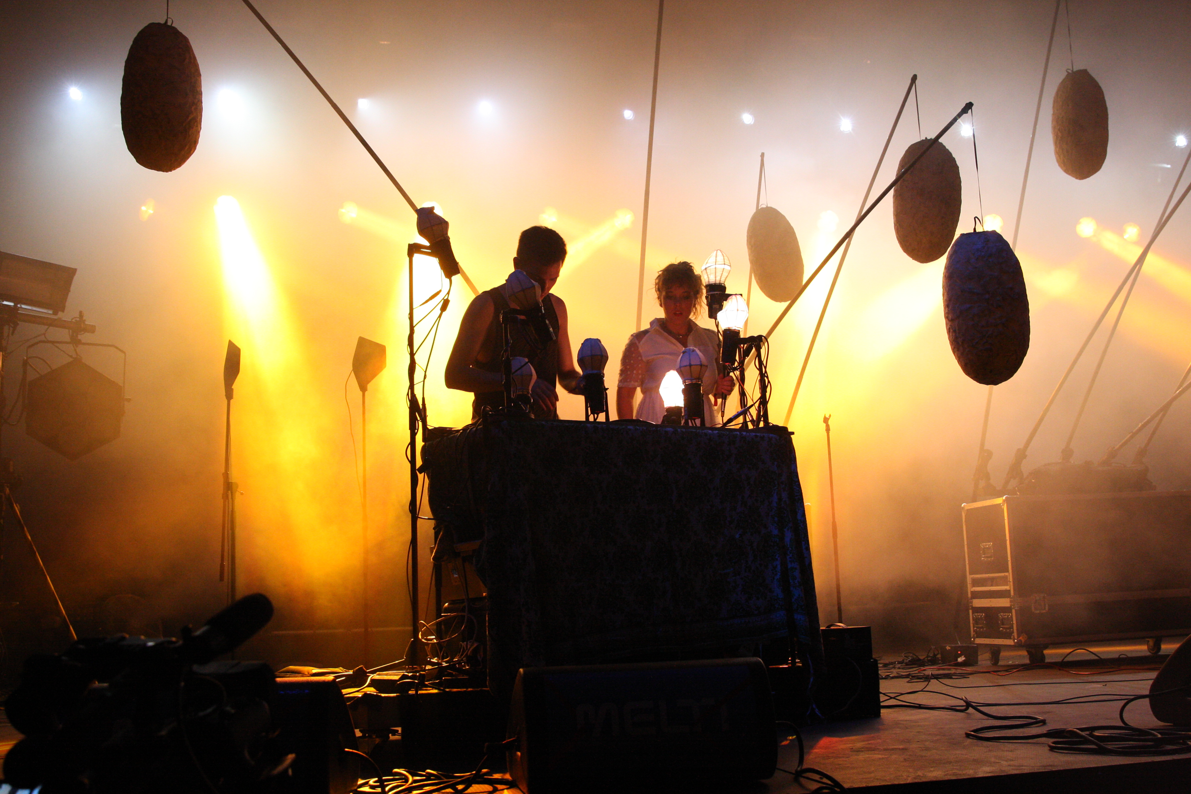 Purity Ring performing at Melt! Festival 2013